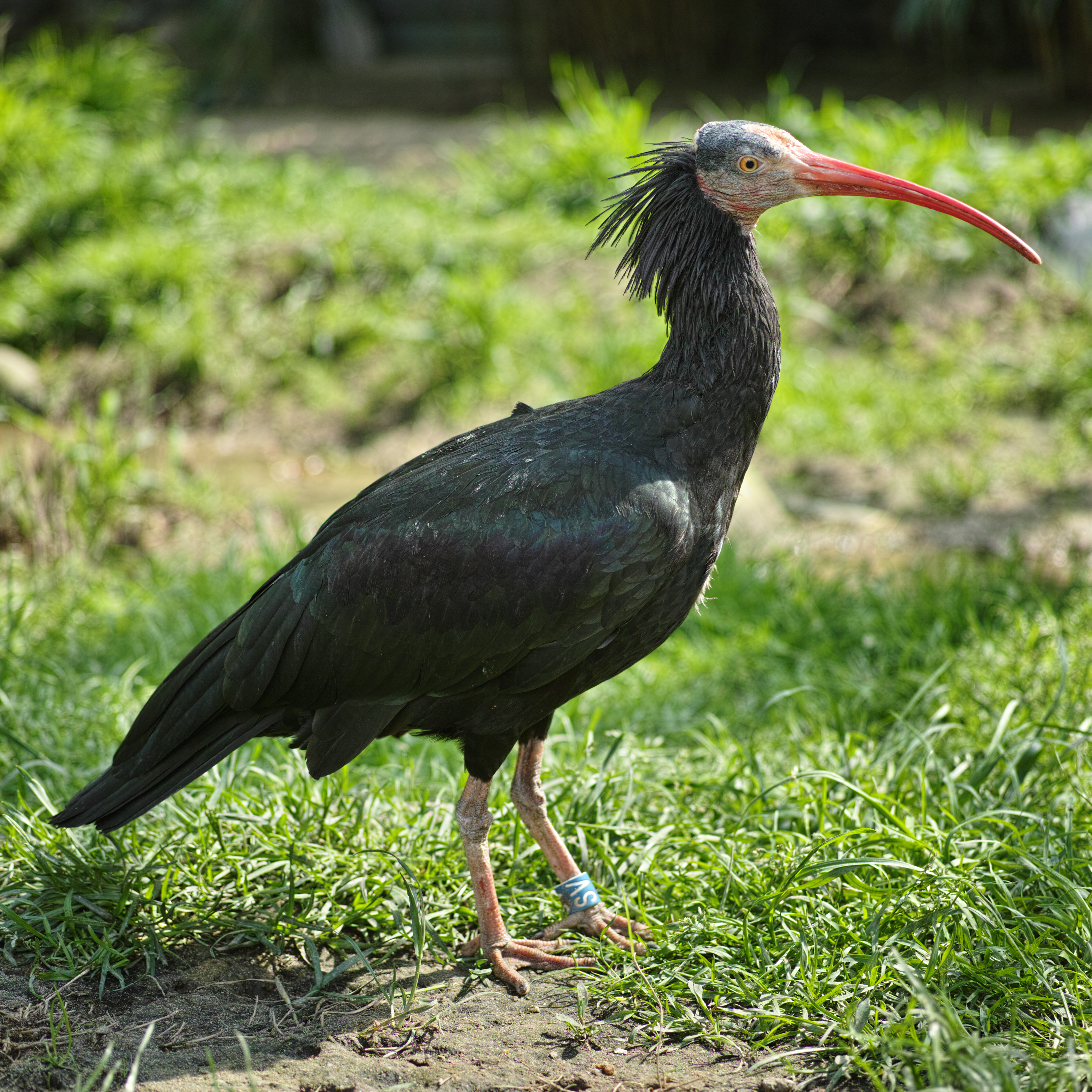 A Hermit Ibis in Vienna Zoo on May 14, 2013.